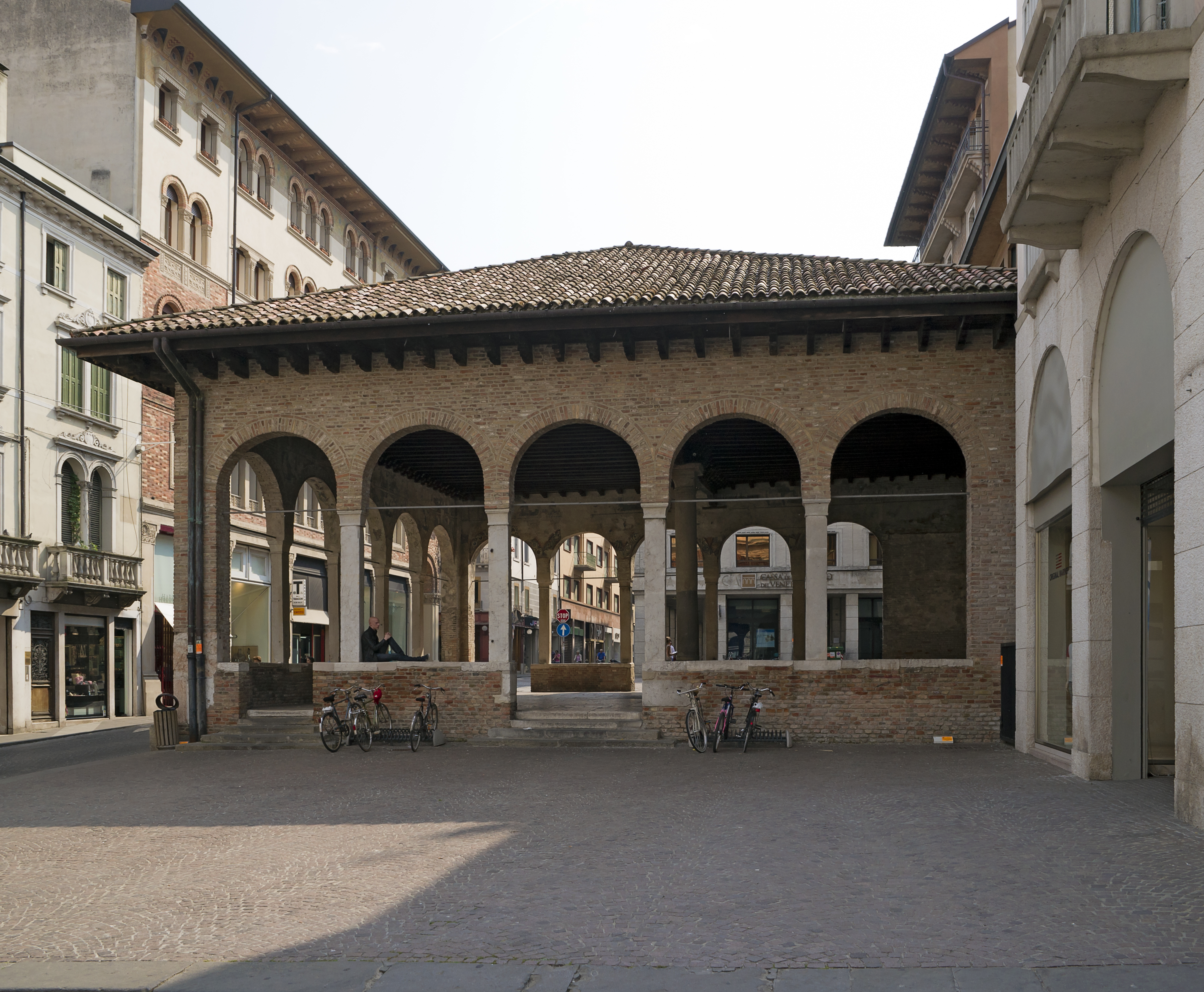 La Loggia dei Cavalieri of Treviso (behind)